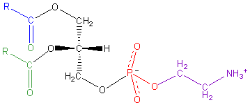 Structural formula of phosphatidyl ethanolamine (Blue/Green: Fatty acid, Black: Glycerol backbone, Red: phosphate, Purple: ethanolamine)